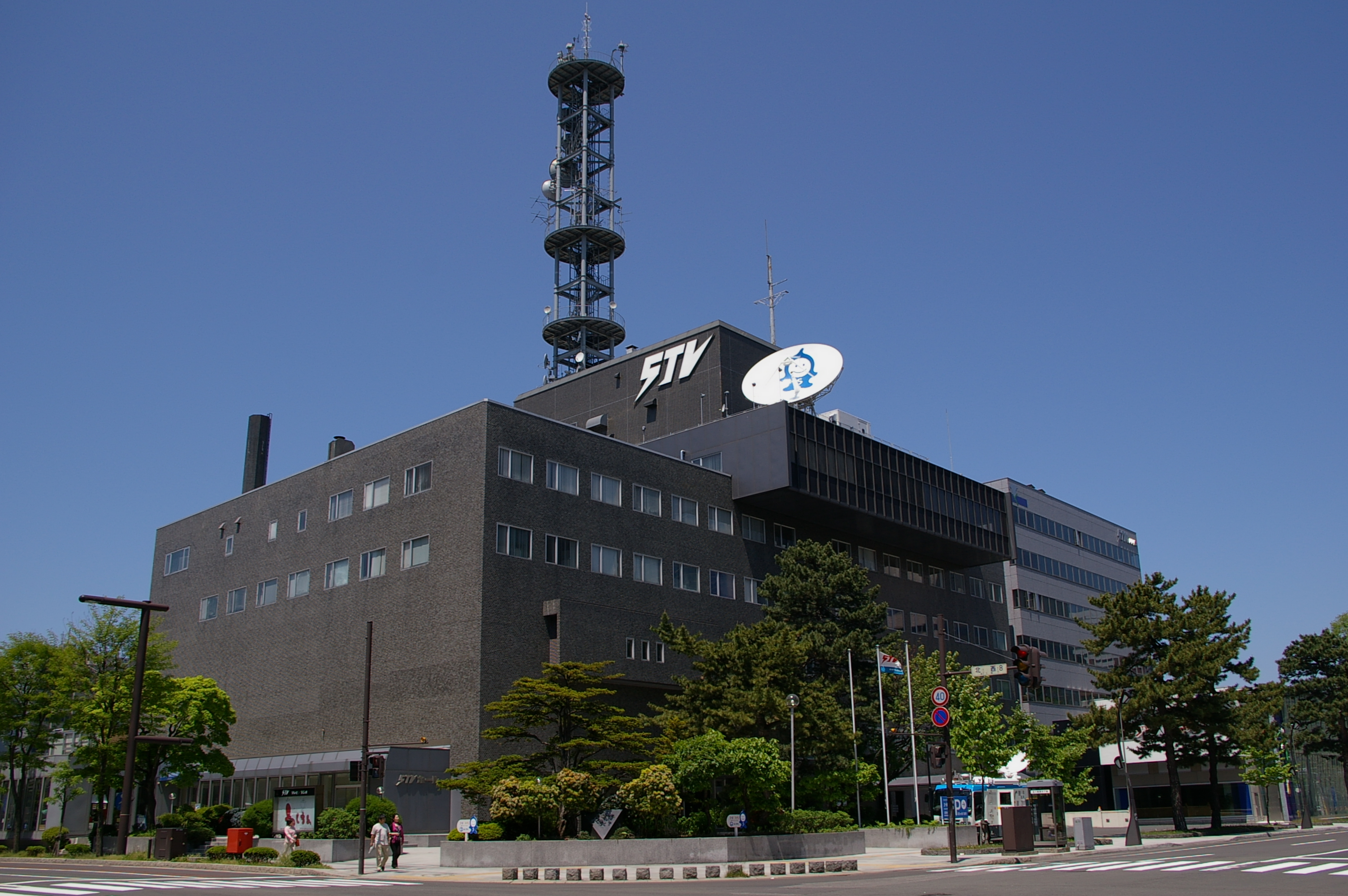 Photograph of Sapporo Television Broadcasting Building, headquarters of Sapporo Television Broadcasting Company and STV Radio Broadcasting Company, in Chuo-ku, Sapporo, Hokkaido, Japan.